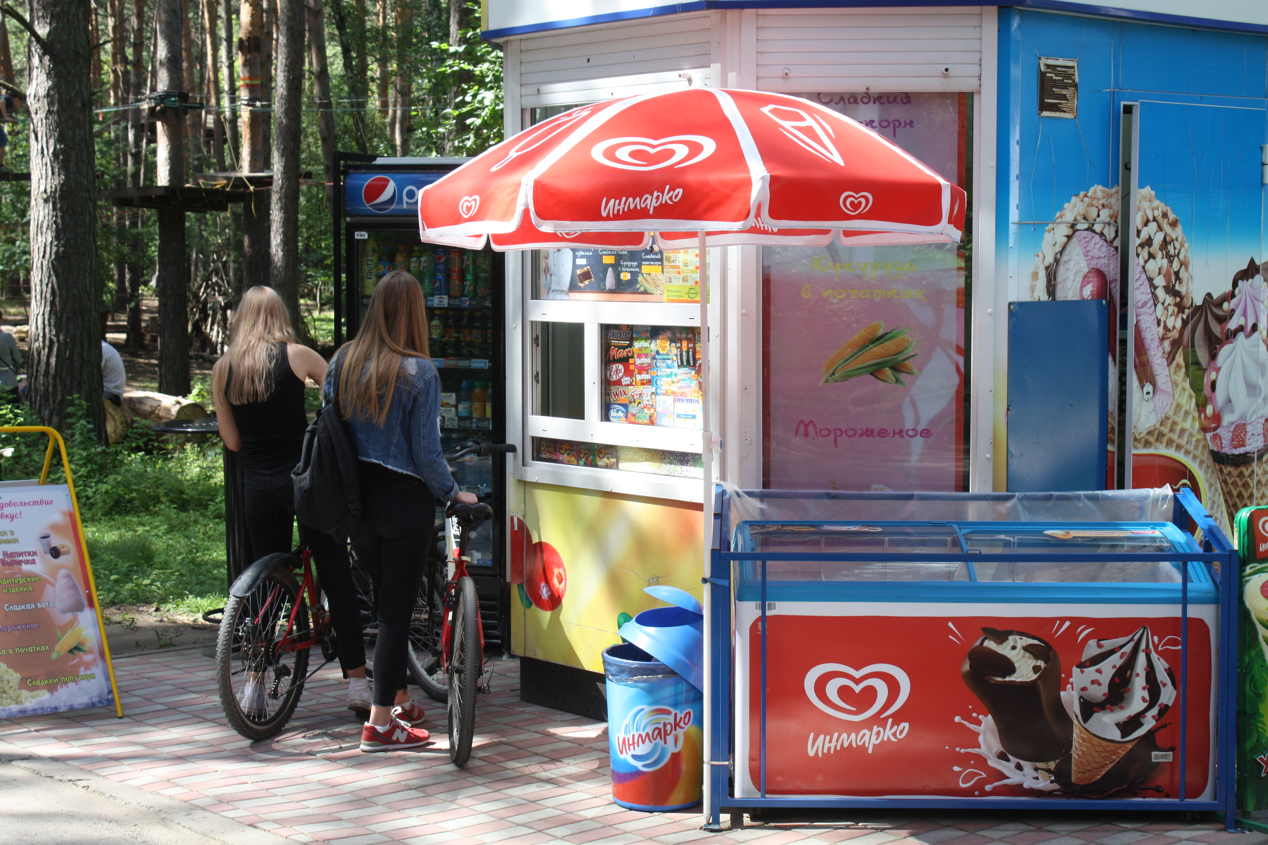 Ice cream stand, Zayeltsovsky Park, Novosibirsk.